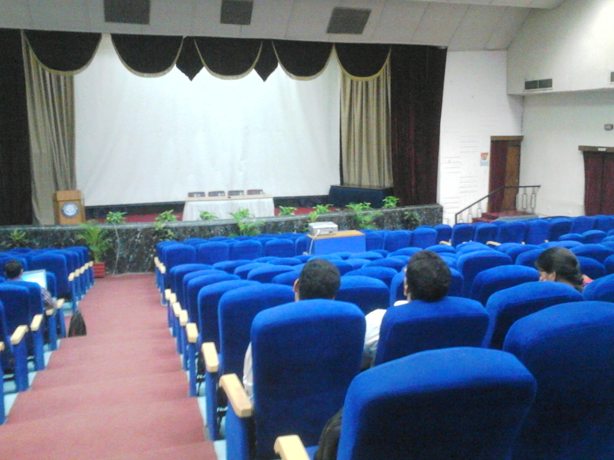 auditorium